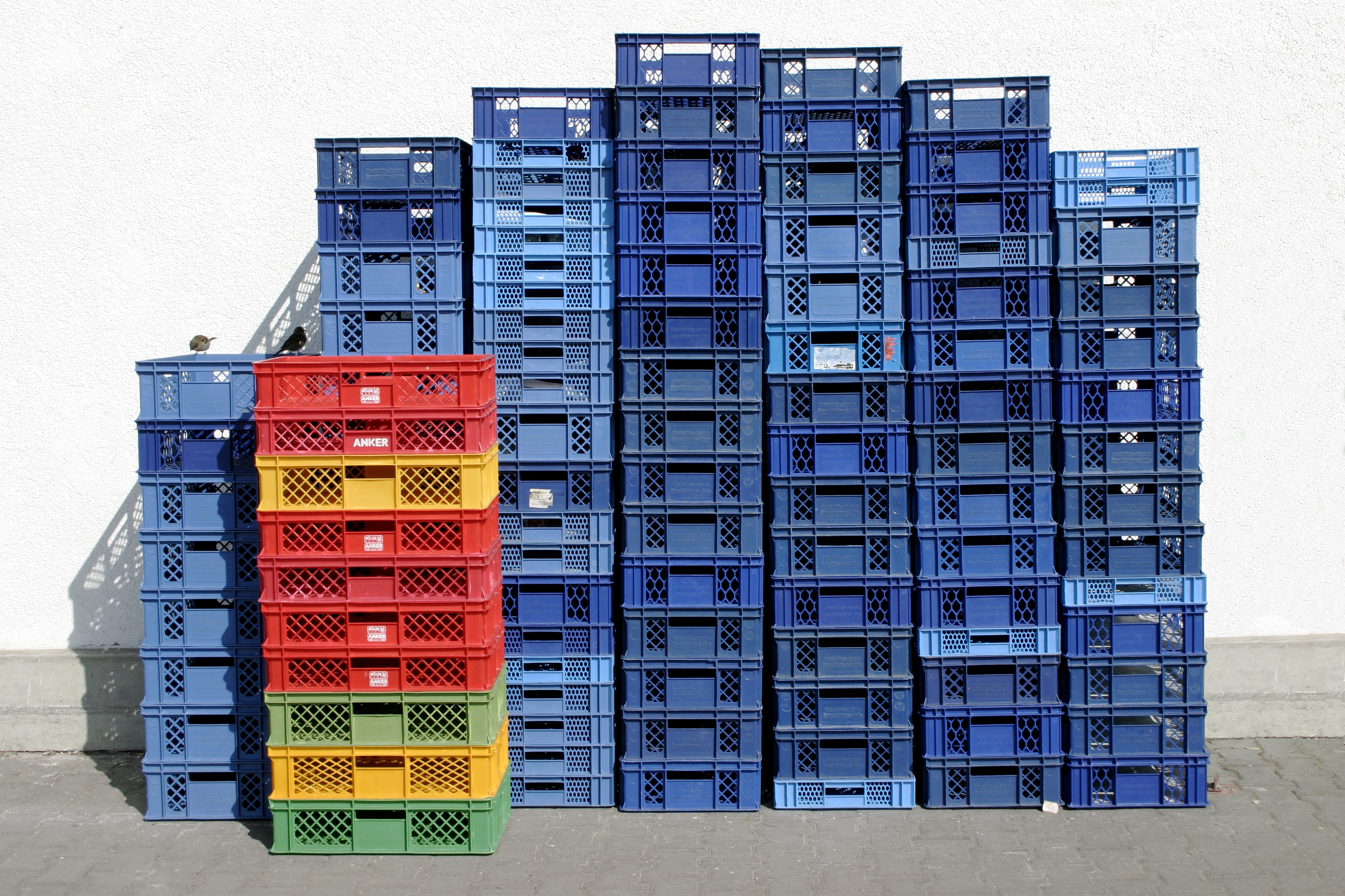 Plastic boxes, with two birds